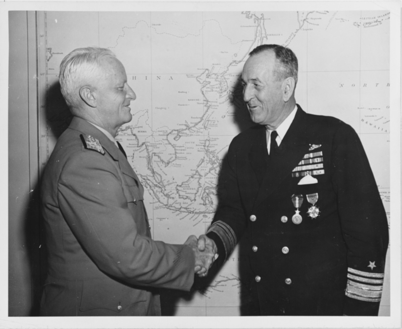 L to R: Fleet Admiral Chester W. Nimitz, USN, Chief of Naval Operations, shakes hands with Vice Admiral William R. Munroe USN, circa 1946. Admiral Munroe wears the Distinguished Service Medal (right) and the Legion of Merit with Gold Star.